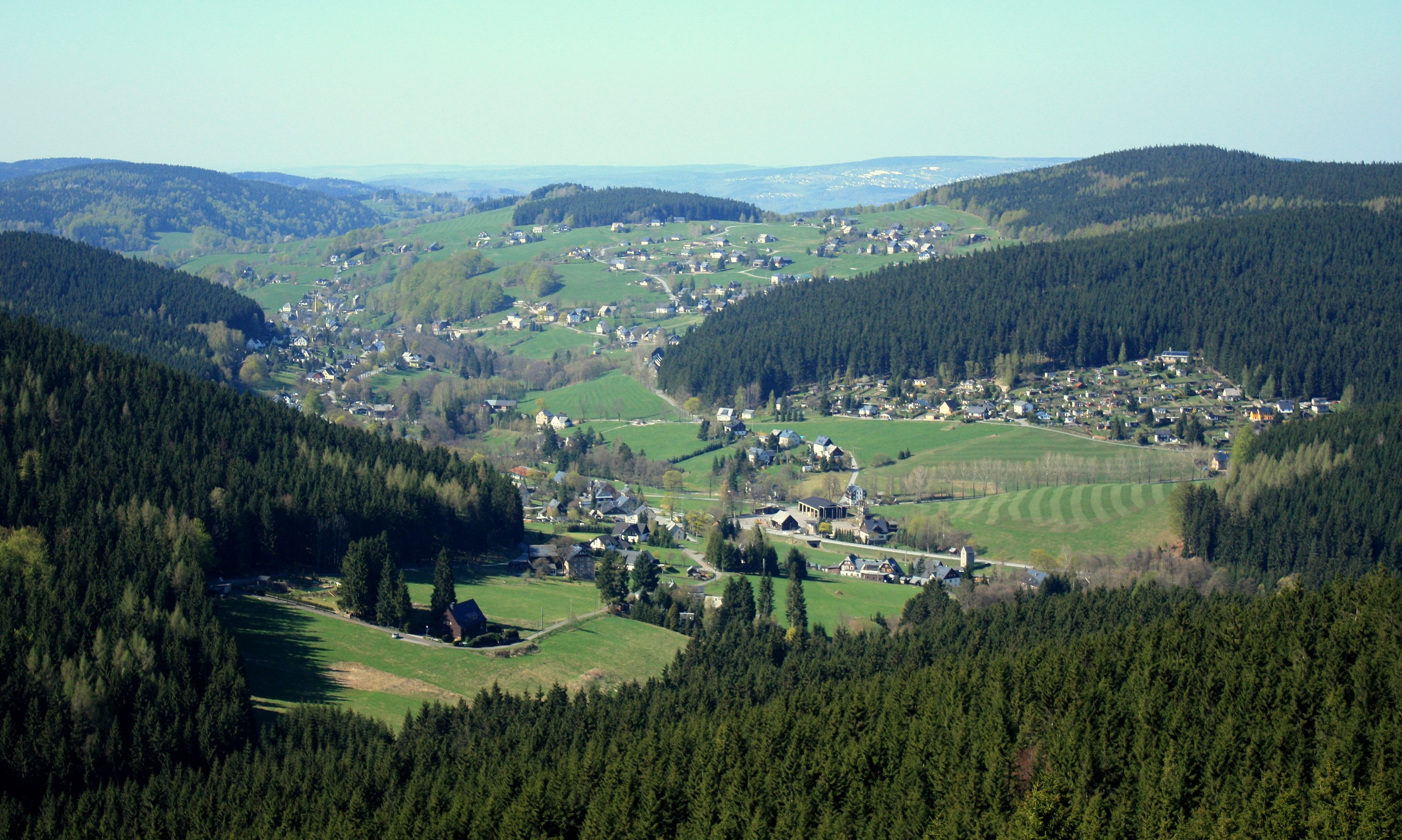 Rittersgrün, view from Taubenfelsen Rock